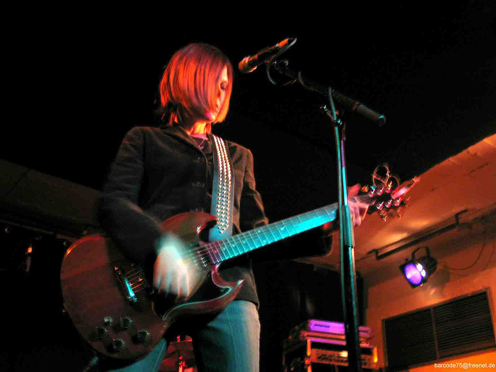 Musician Juliana Hatfield